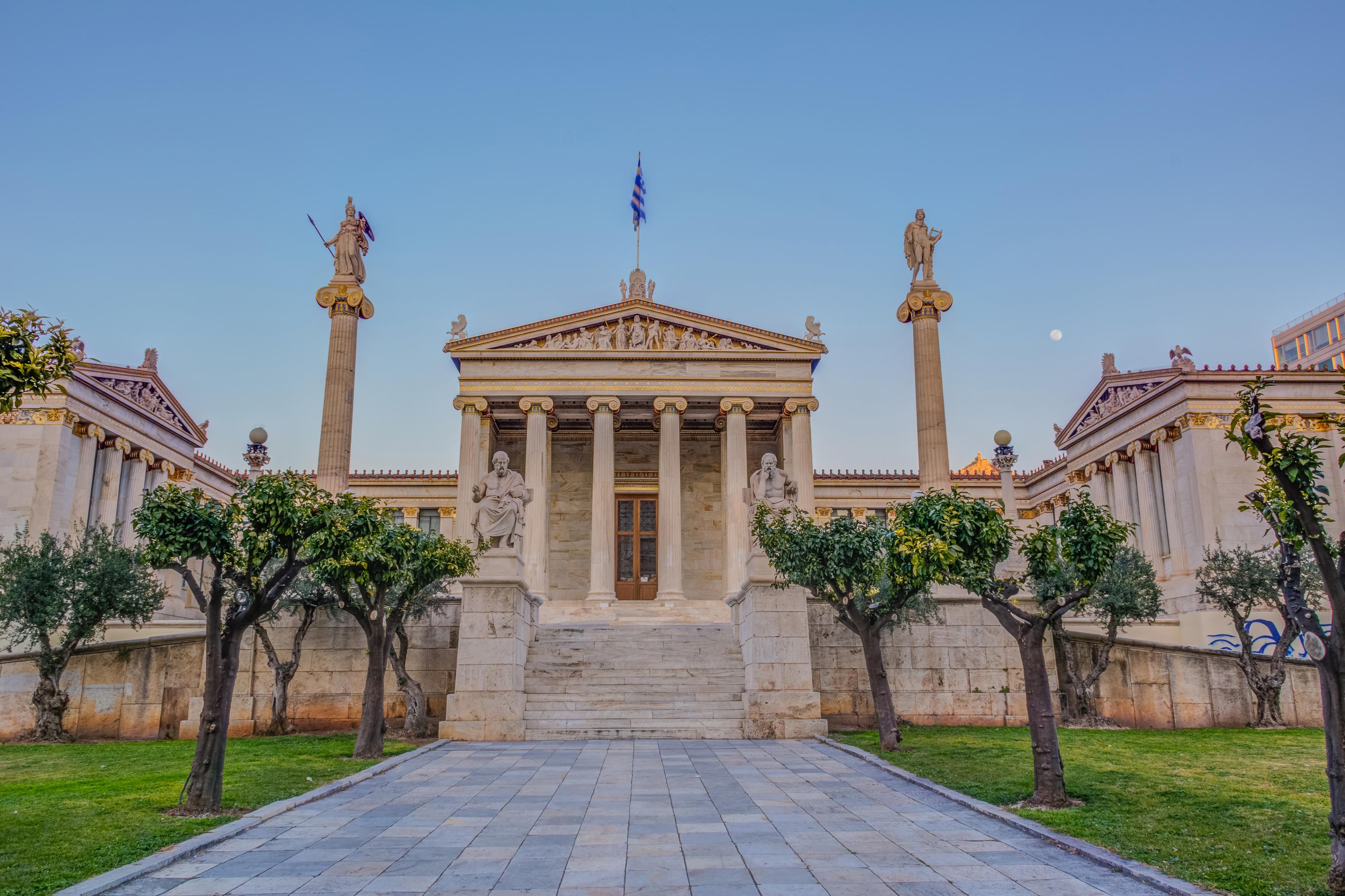 Front facade of the Academy of Athens at sunset (